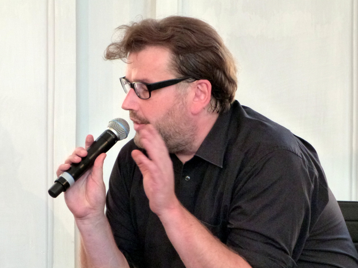 German publisher Jörg Sundermeier at the Erlanger Poetenfest 2015